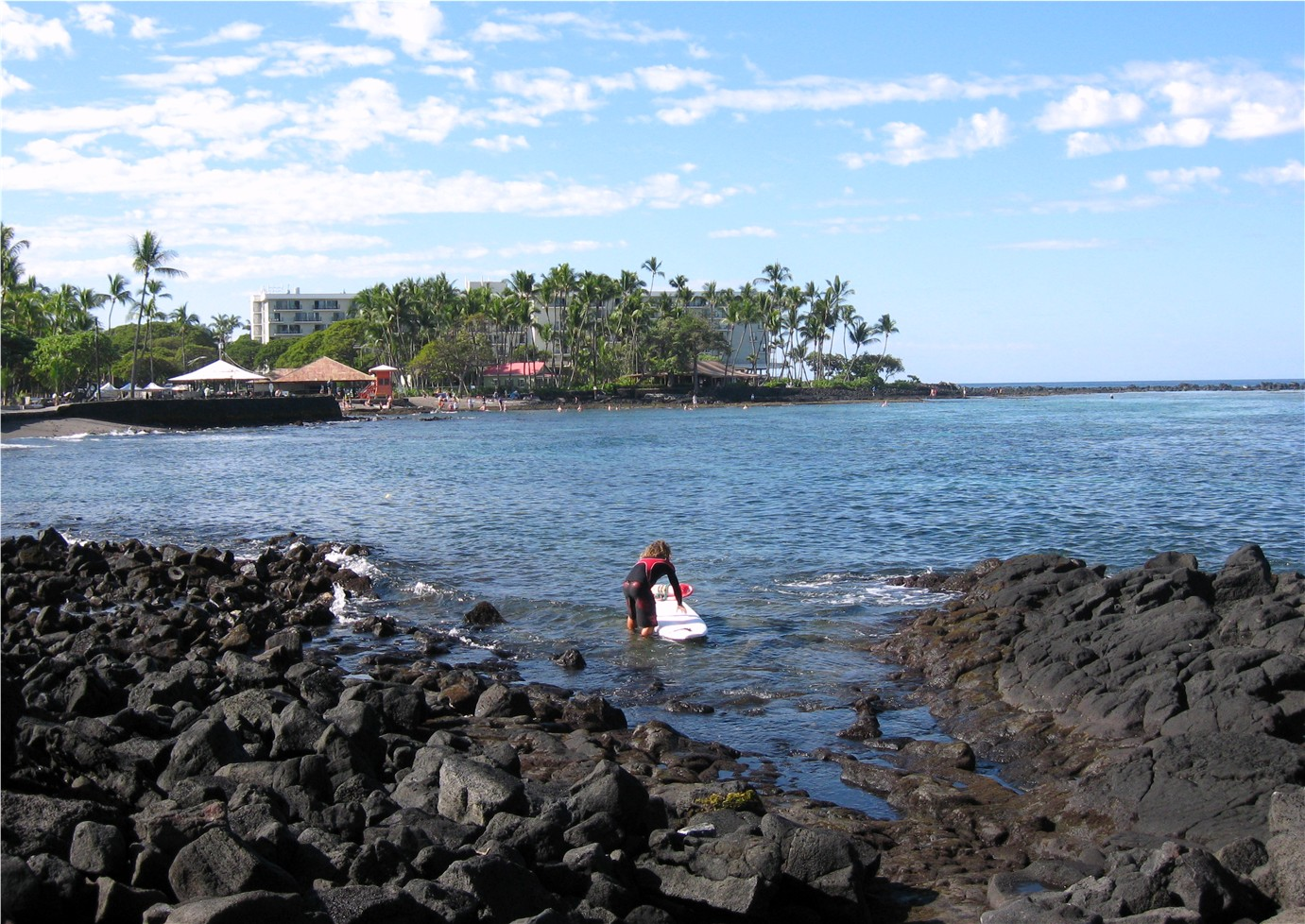 Ancient Keawaiki Canoe Landing site on Kahaluʻu Bay — on the Big Island of Hawaiʻi. It is now used by surfers in Hawaii.